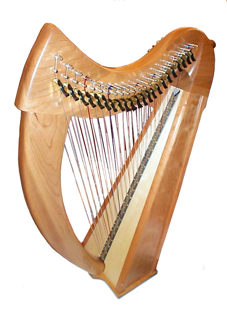 Stoney End Brittany Double-Strung Lap Harp in Cherry[1], photograph by Erika Malinoski at HarpCon 2003